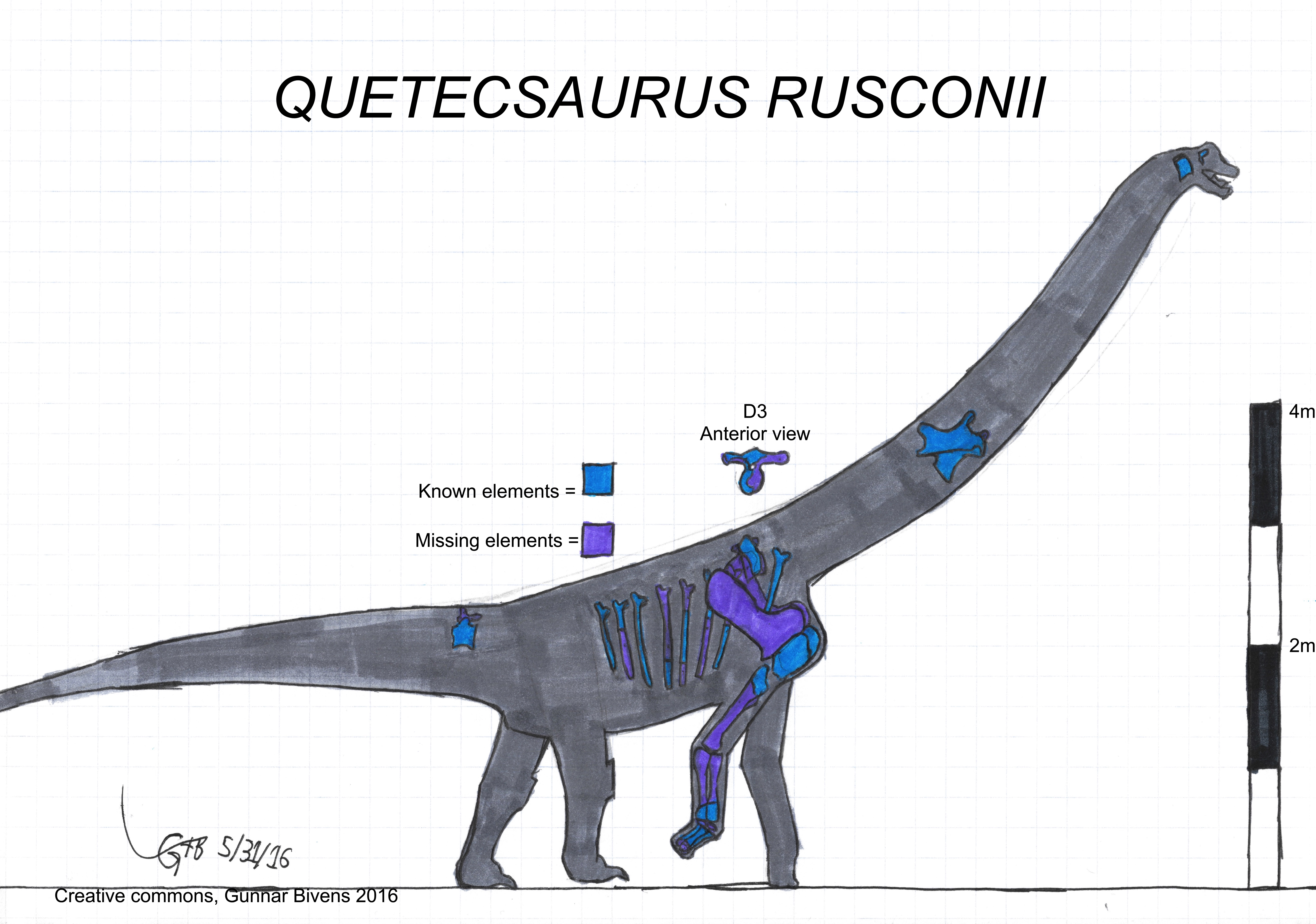 Skeletal restoration